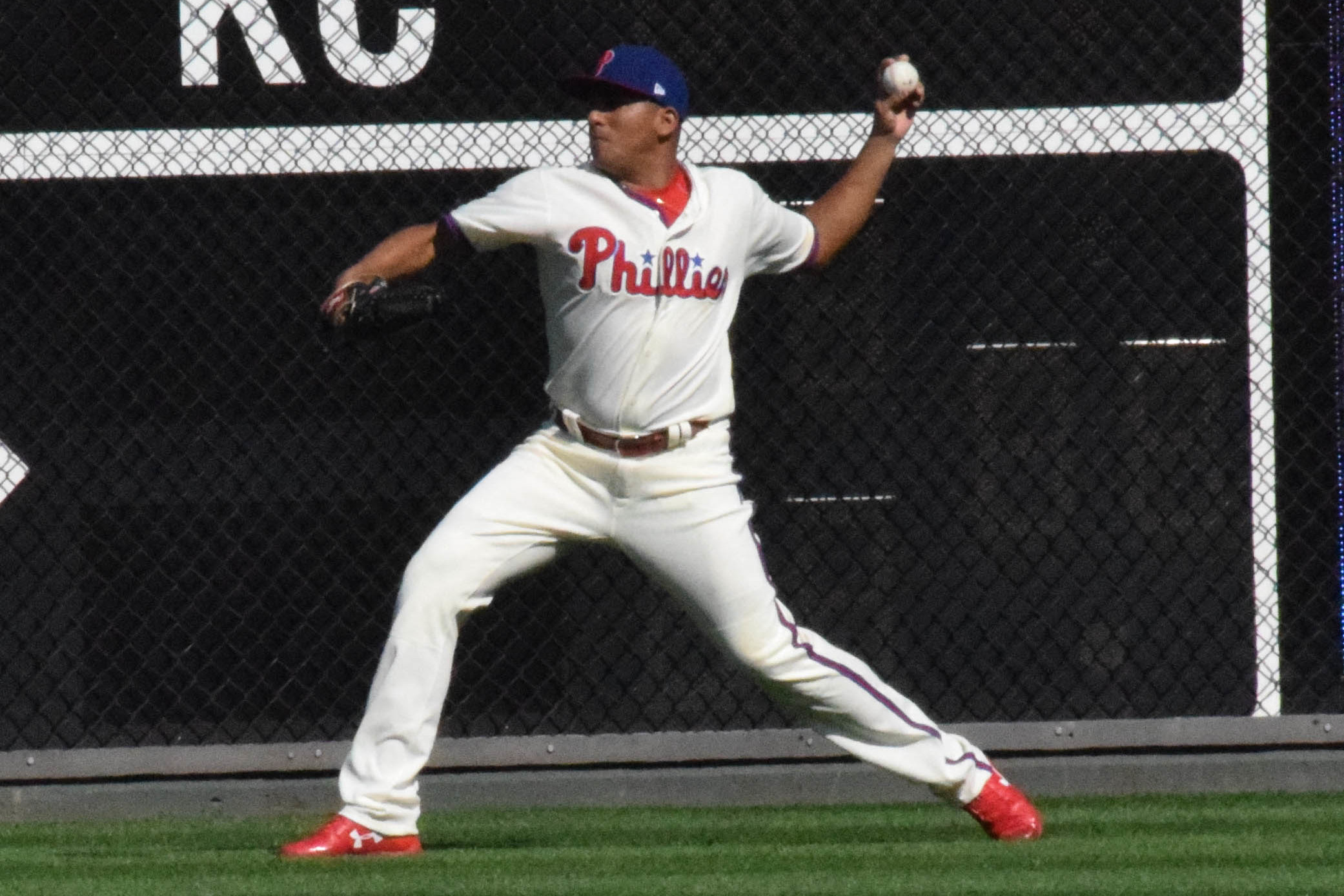 Ranger Suarez of the Philadelphia Phillies warms up in the outfield before a 2018 game.